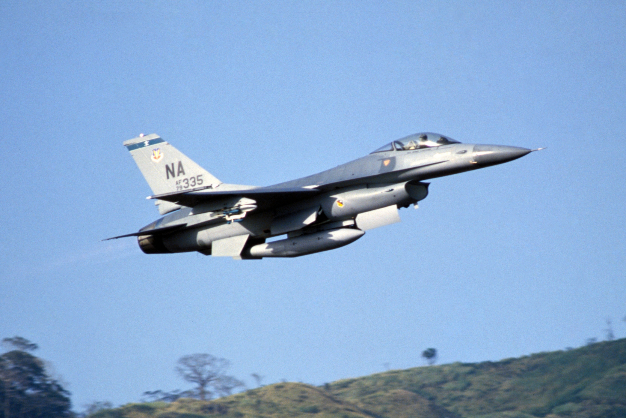 A U.S. Air Force Reserve General Dynamics F-16A Block 10 Fighting Falcon (s/n 79-0335) from the 428th Tactical Fighter Squadron, 474th Tactical Fighter Wing, taking off during "Kindle Liberty '86", a joint US/Panamanian exercise in defense of the Panama Canal. The F-16A 79-0335 was retired to the AMARC as FG0013 on 4 August 1993.